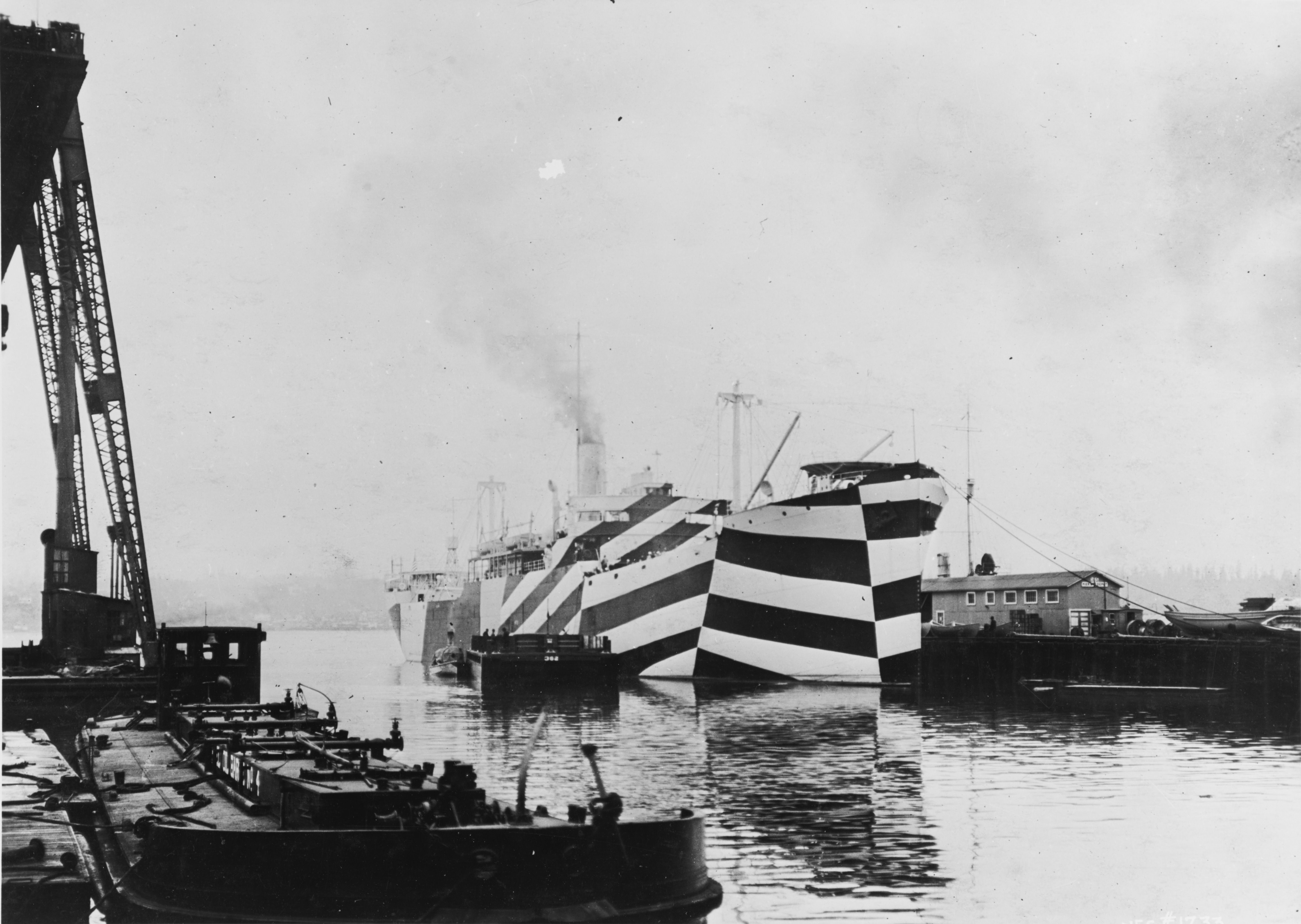 (ID # 3681) In port, circa November 1918. Note how her Dazzle camouflage greatly distorts the apparent aspect of her bow. Photograph from the Bureau of Ships Collection in the U.S. National Archives.